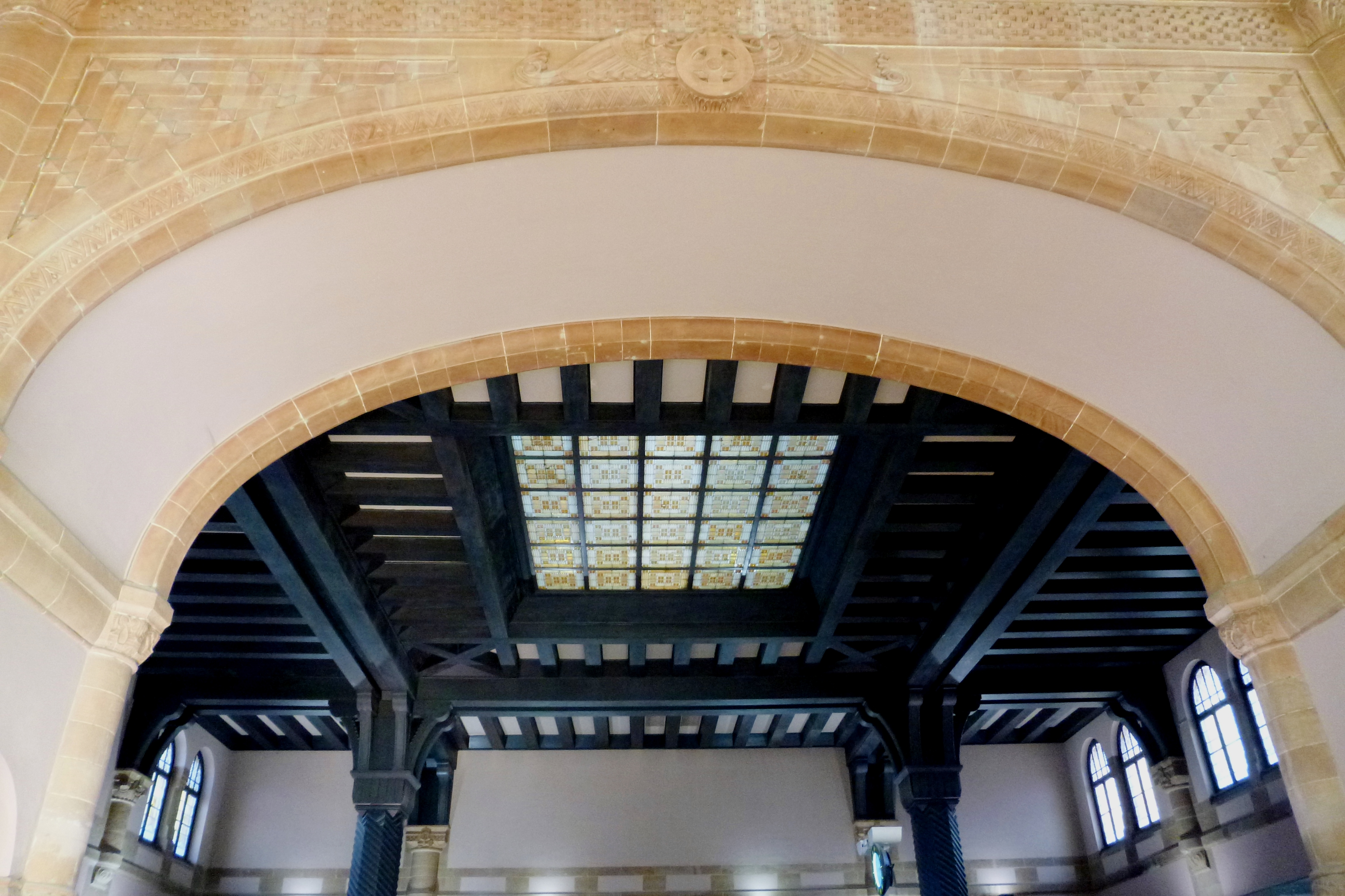 Ceiling of the entering hall of Metz train station